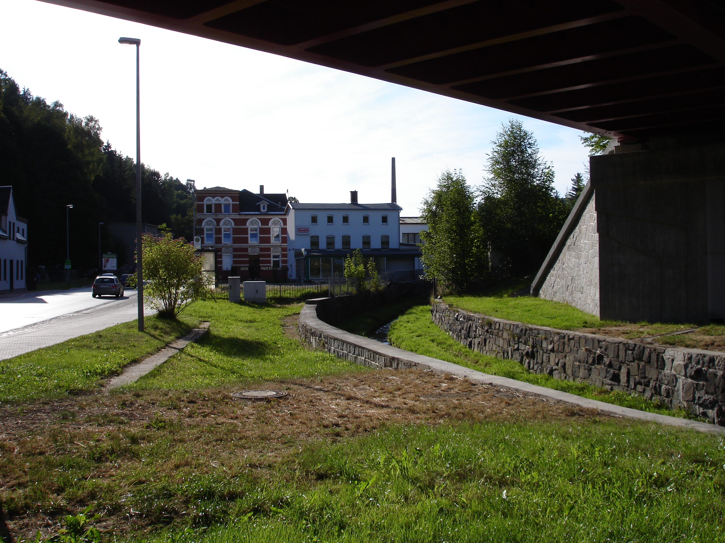 station Klingenthal, Saxony, Germany